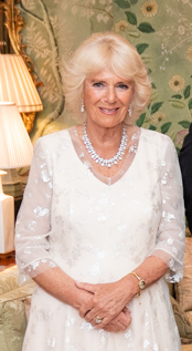 President Donald J. Trump and First Lady Melania Trump pose for a photo with Britain’s Prince of Wales and the Duchess of Cornwall Tuesday, June 4, 2019, at Winfield House in London. (Official White House Photo by Shealah Craighead)